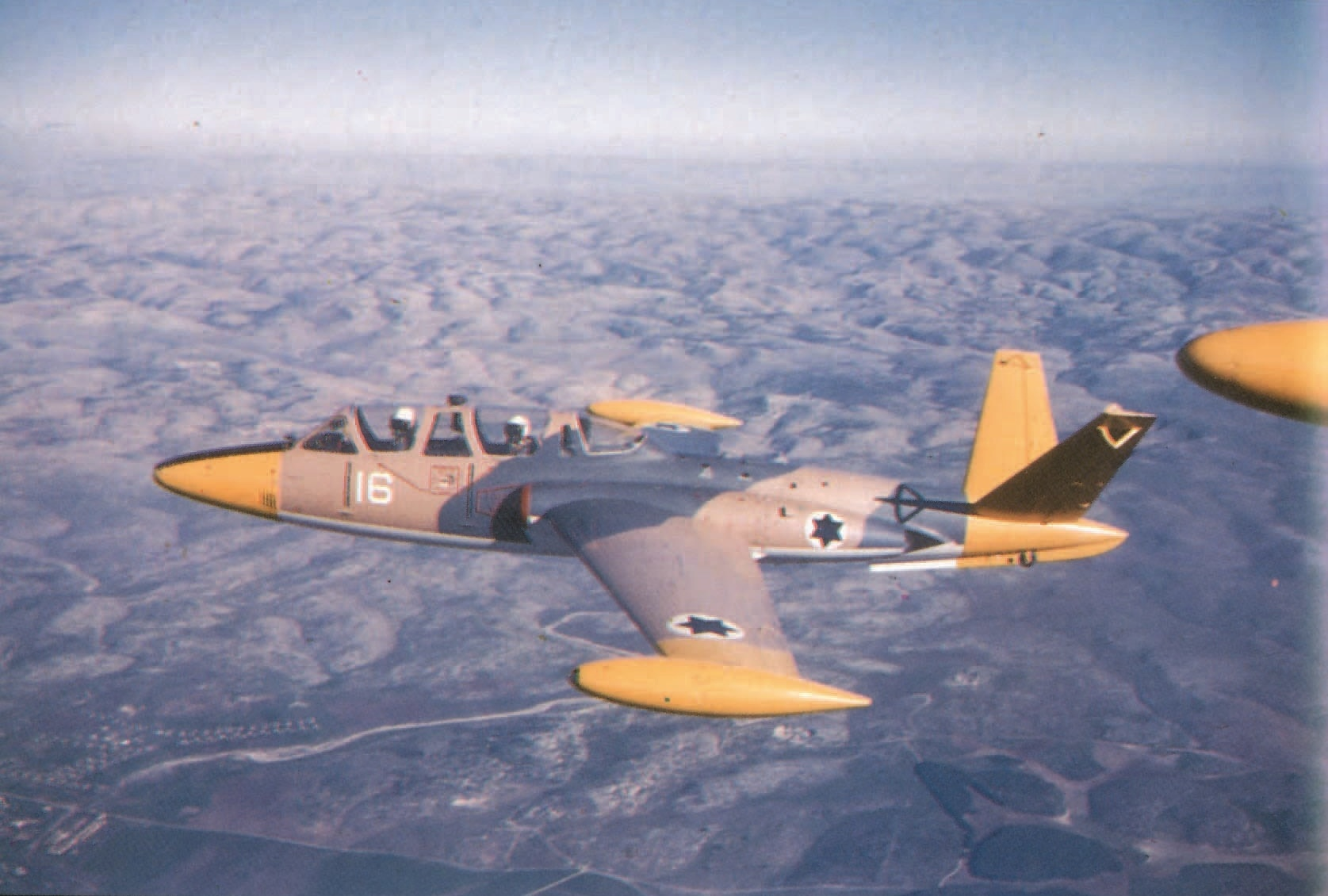 An image of the first Fouga Magister flight formation in the Israeli Air Force during 1960